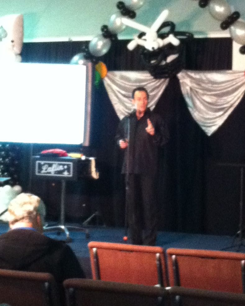 Duane teaching at the Association of Christian Entertainers Symposium held in Tyler, Texas(US) in January 2015.